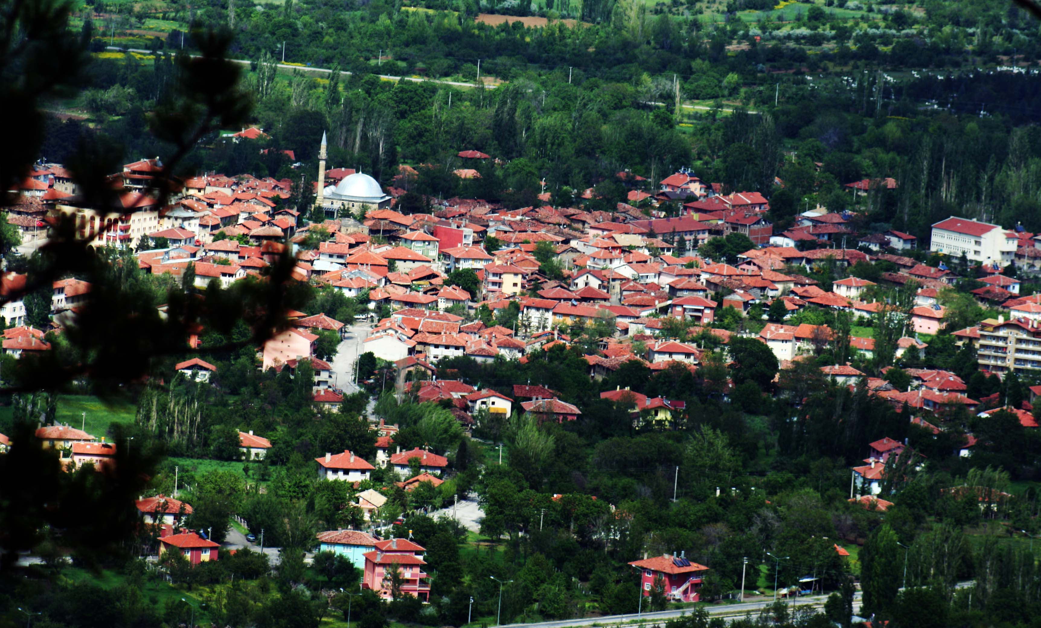 General view of Eldivan.